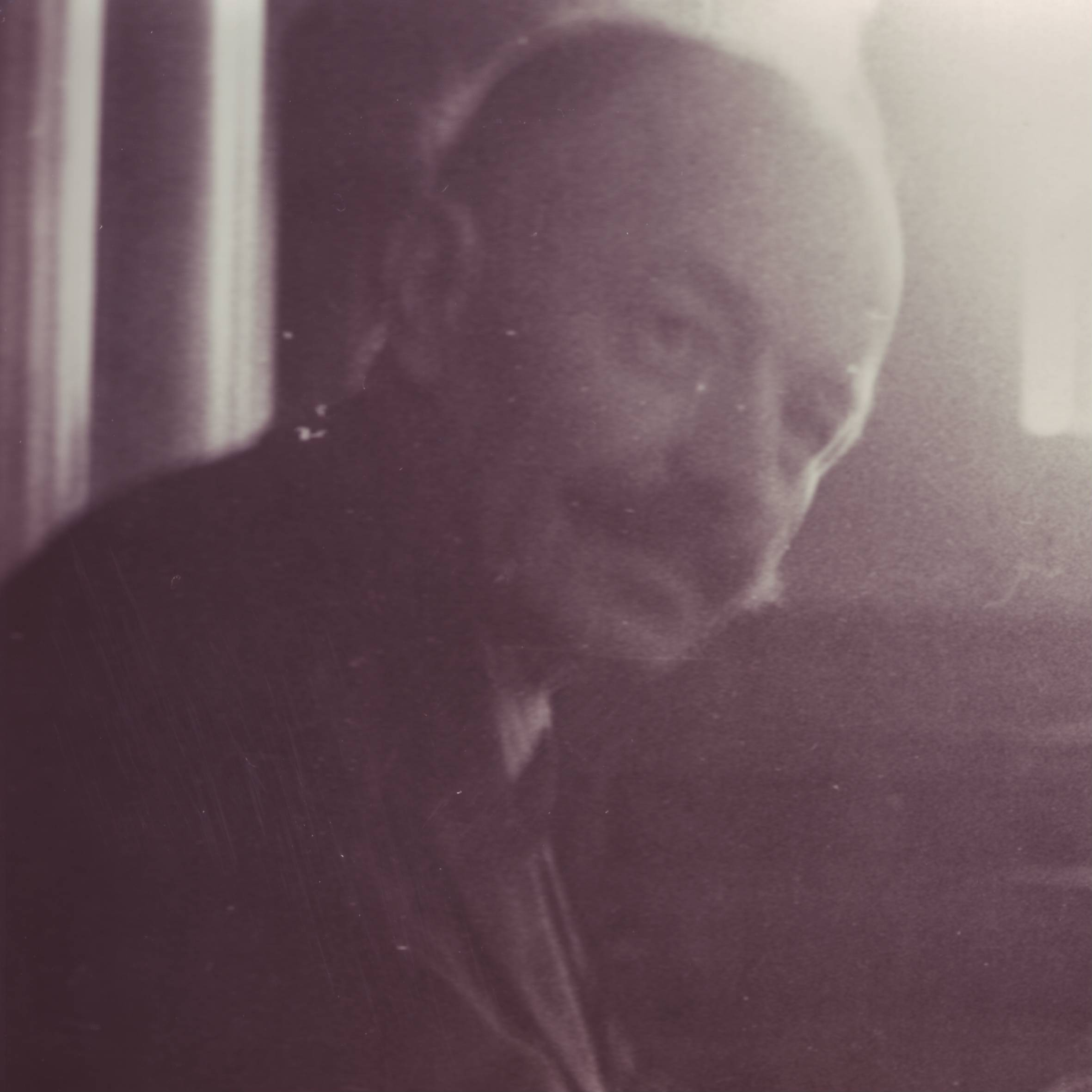 Hans Hermann Kürsteiner, formar secretary of Swiss Esperanto-Association/ekssekretario de Svisa Esperanto-Societo